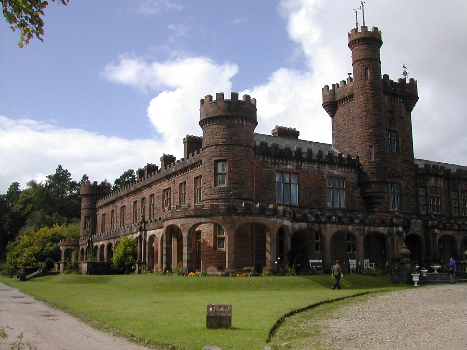 Kinloch Castle, on the Isle of Rum, Scotland.